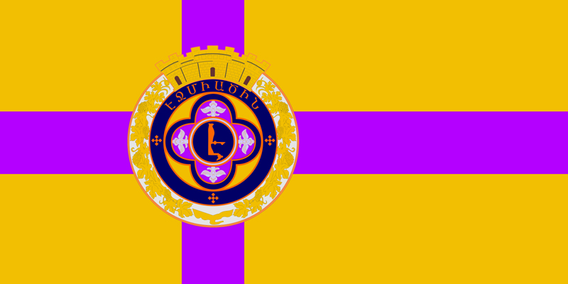 The flag of Ejmiatsin (Vagharshapat) city in Armenia